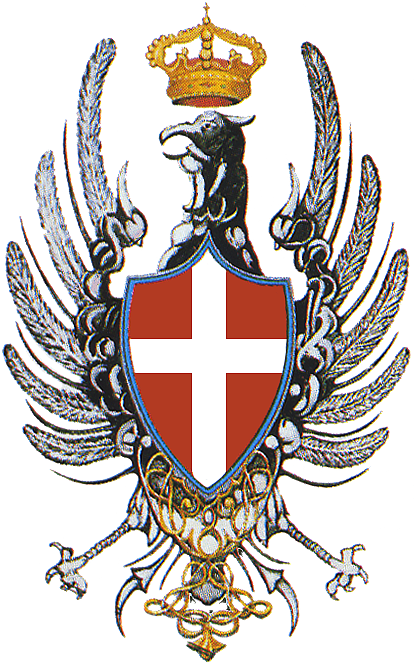 distinctive coat of arms of the Royal Italian Air Force (Régia Aeronautica Italiana) from 29 April 1913 until 28 June 1915.